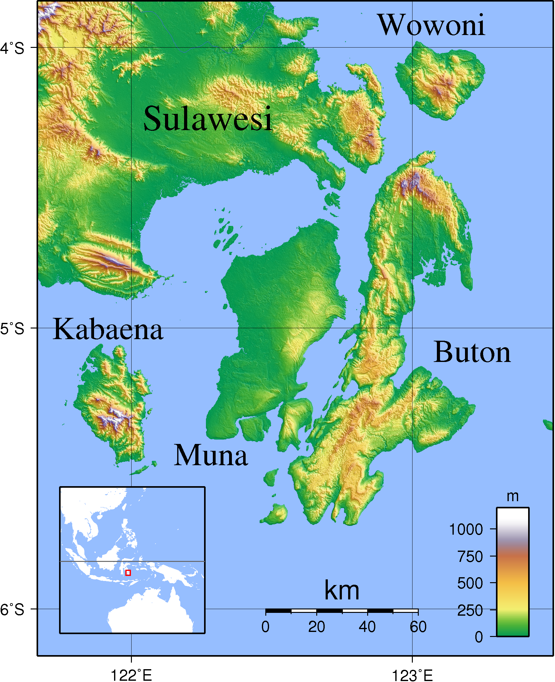 Topographic map of Buton and other nearby Islands in Indonesia. Created with GMT from SRTM data.